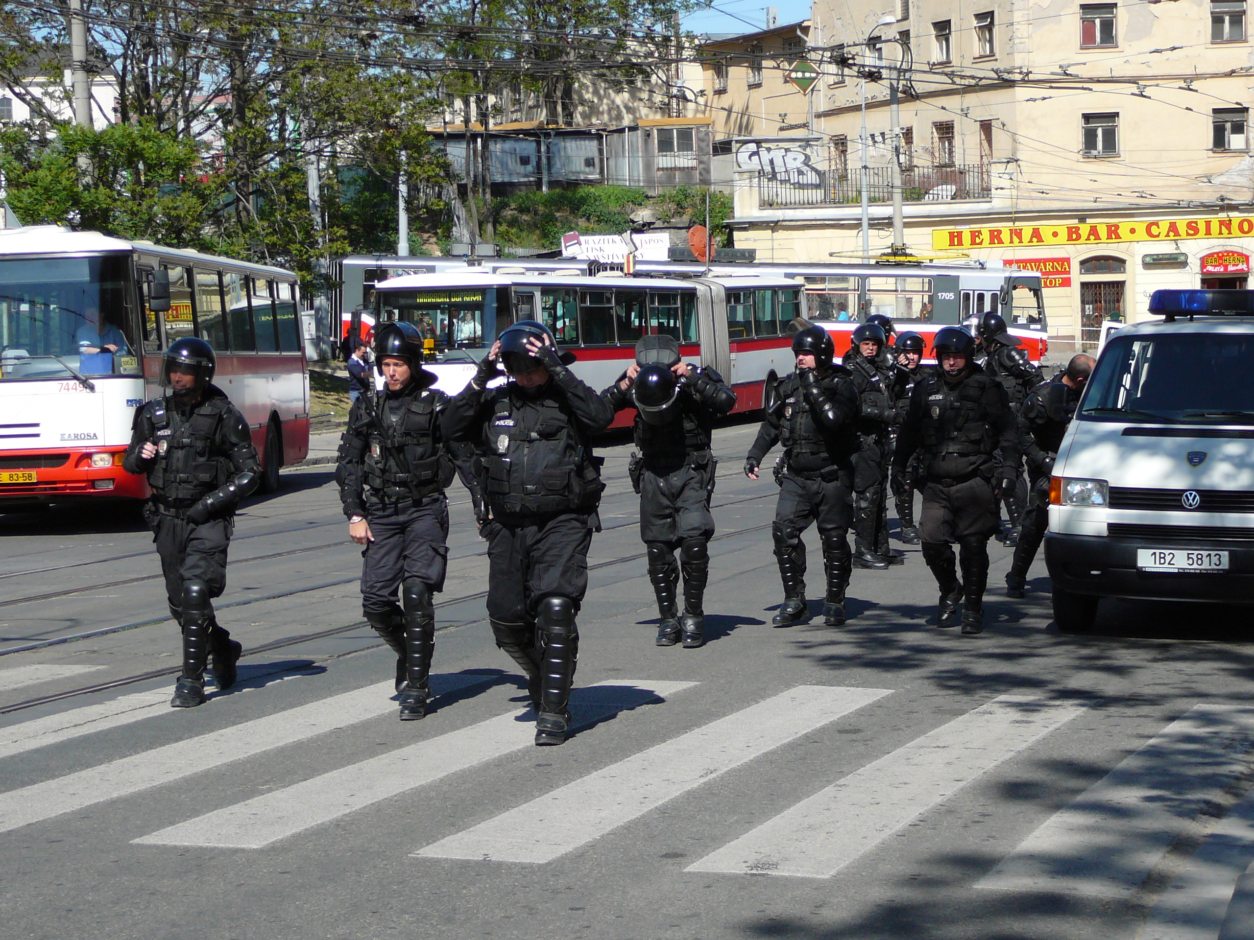 Czech Special disciplinary force during demonstration of czech radikal neo-Nazis Národní odpor on May 1 in Brno (CZE)